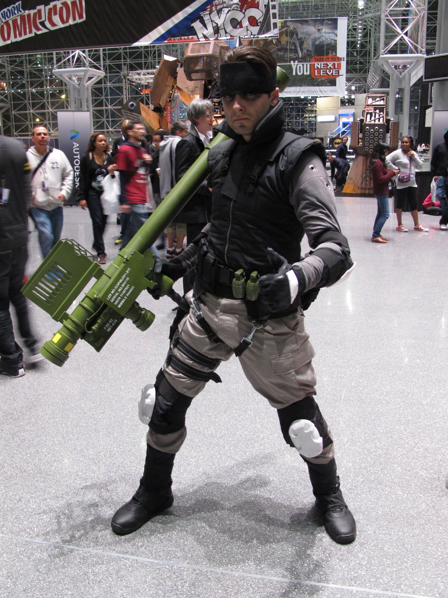 Cosplay of Solid Snake (from the Metal Gear franchise) at the 2014 New York Comic Con.